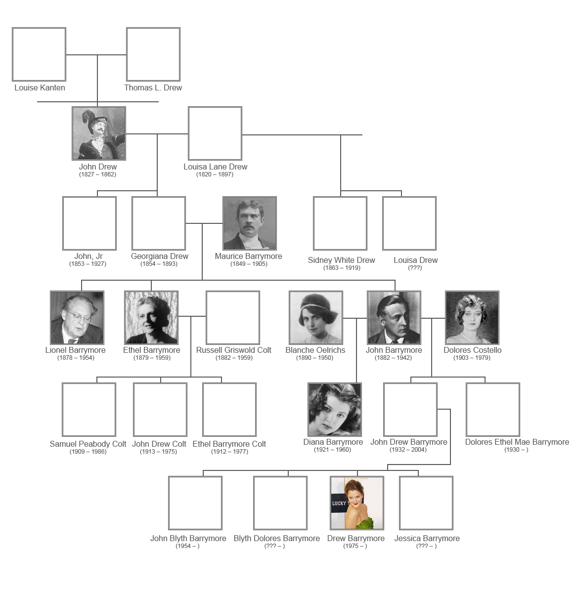 family tree of Barrymore acting family, with selective photographs